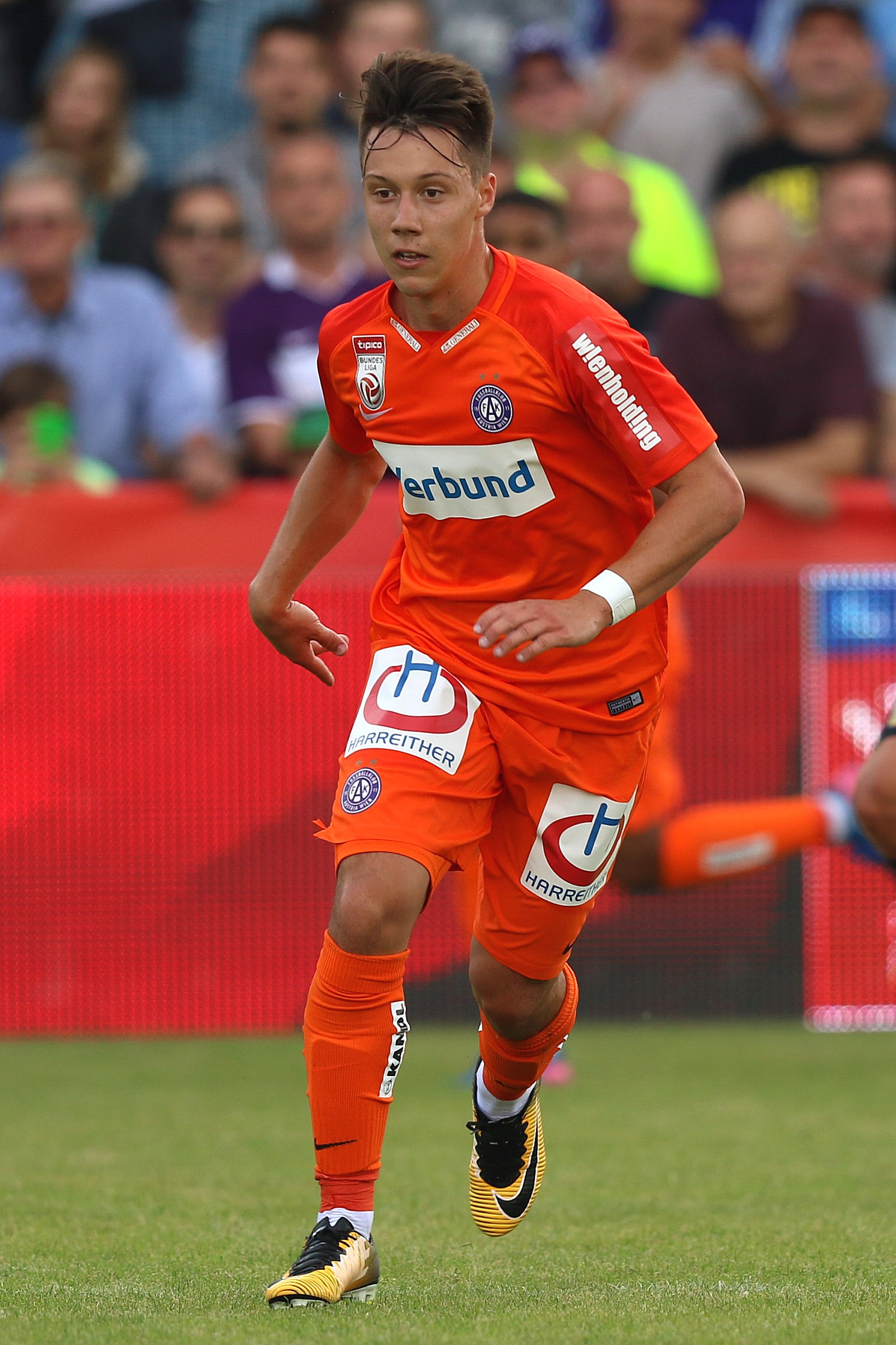 2017–18 Austrian Cup - ASK Ebreichsdorf (blue shirts) vs. FK Austria Wien (orange shirts) 0-0, penaltyscore 3-4. – The photo shows Dominik Prokop